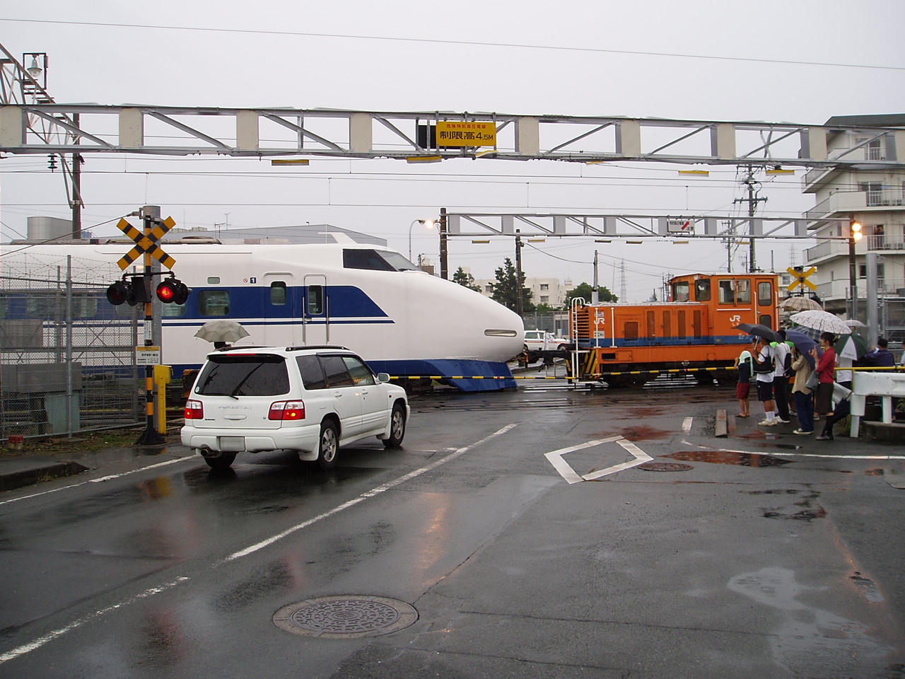 100 series shinkansen being shunted at Hamamatsu Depot